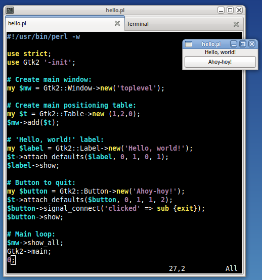 Screenshot of Isilanes' program, with a small grammar correction. Quit has been replaced by Ahoy-hoy!